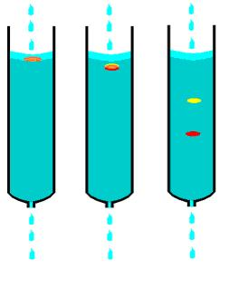 principle of chromatography